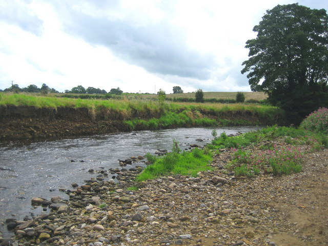 River Laver at Clotherholme The river near Clotherholme Farm, Ripon.